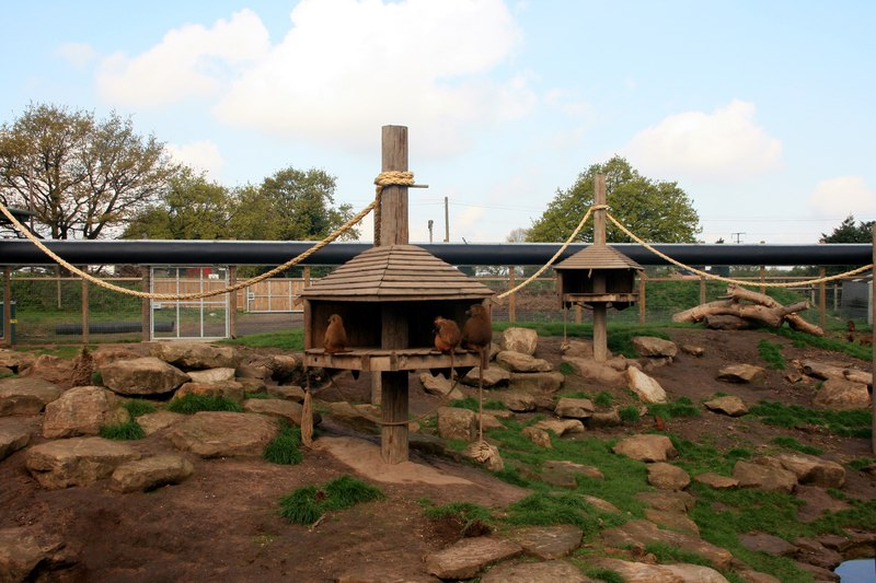 Photo of Baboon Reserve in Yorkshire Wildlife Park (image labeled for reuse)